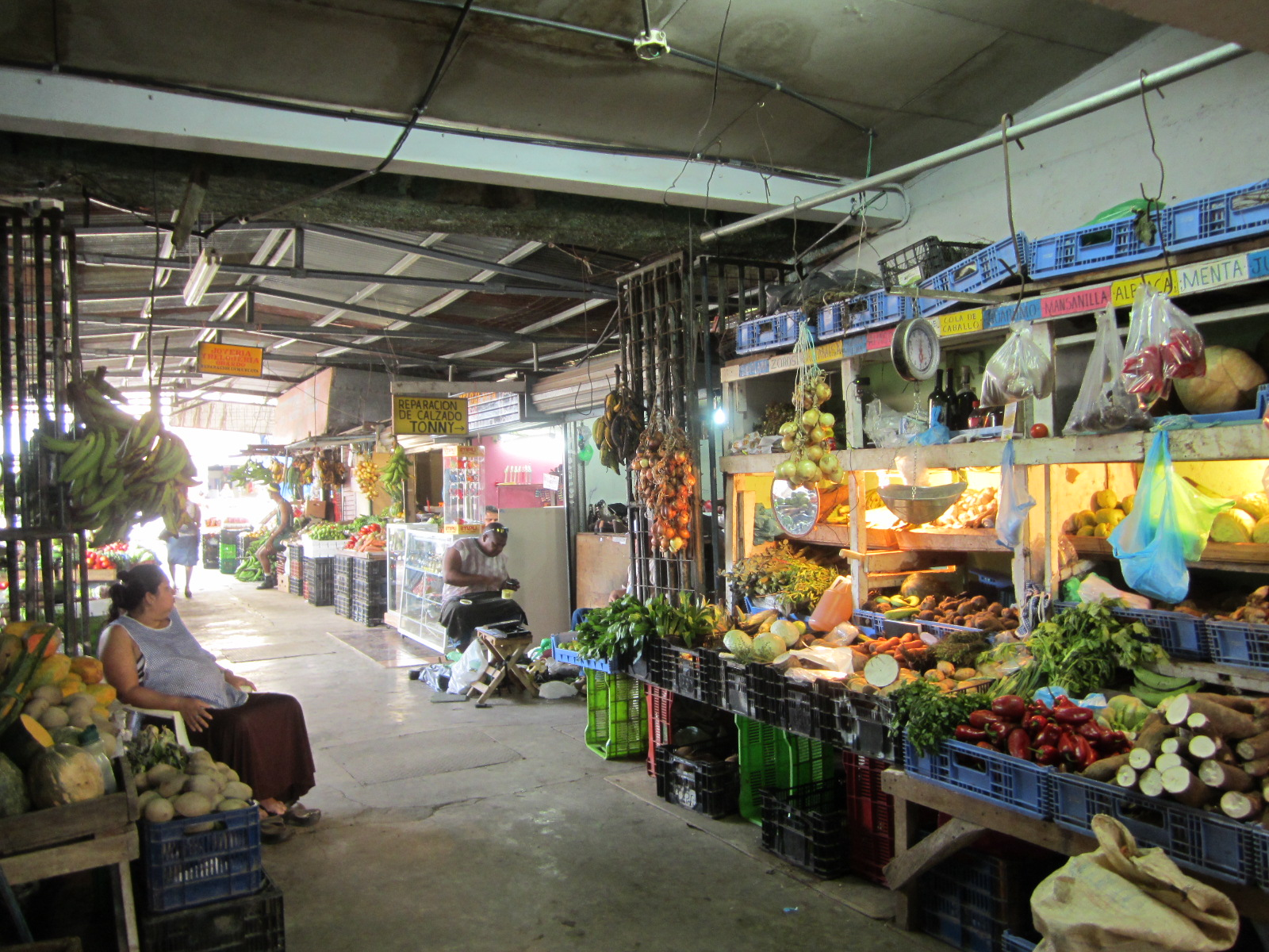 Market scene at Puerto Pimon